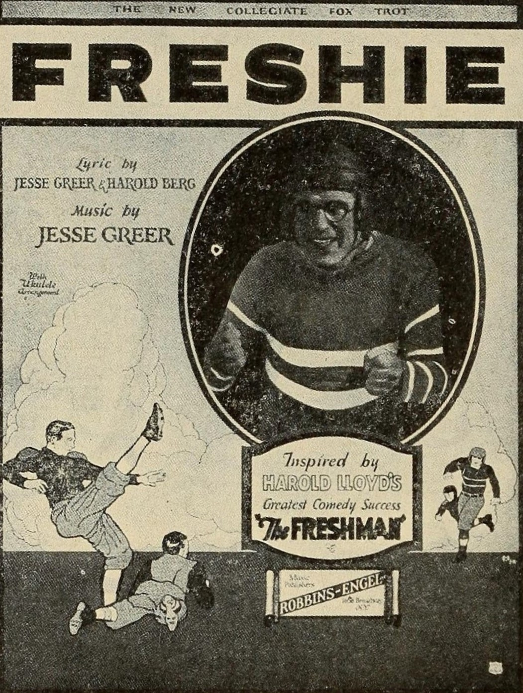 Freshie, written by Jesse Greer for the 1925 film The Freshman. From Exhibitor's Trade Review